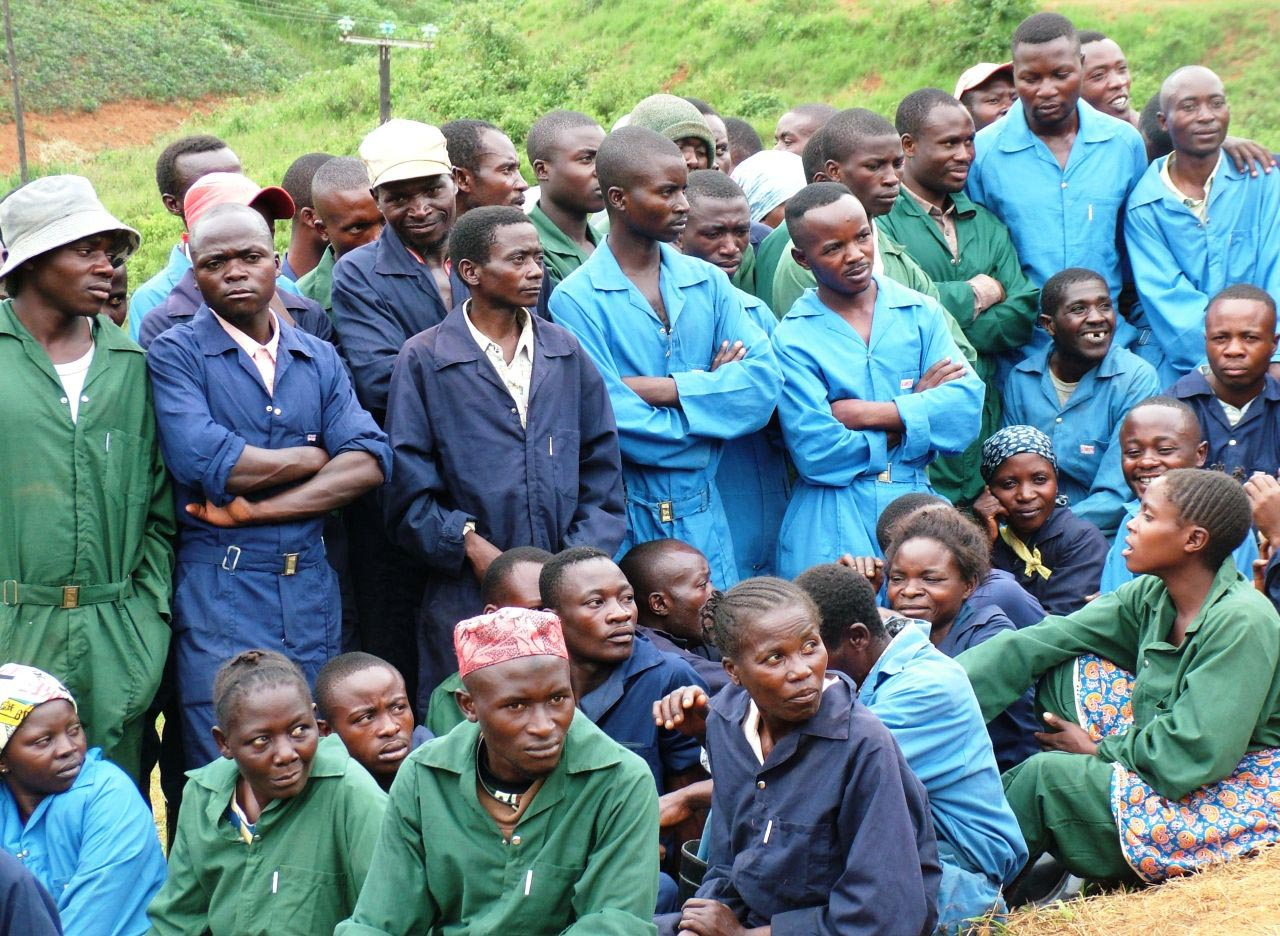 Mai-Mai ex-combatants